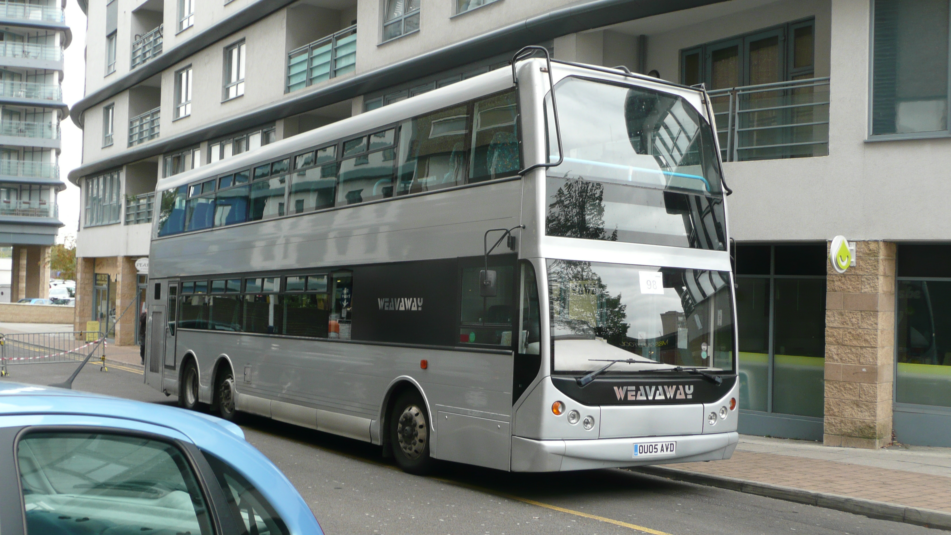 Weavaway Travel OU05 AVD, a Volvo B9TL/East Lancs Nordic, on the south side of Woking railway station, Station Approach, Woking, Surrey, laying over between duties on South West Trains rail replacement work.